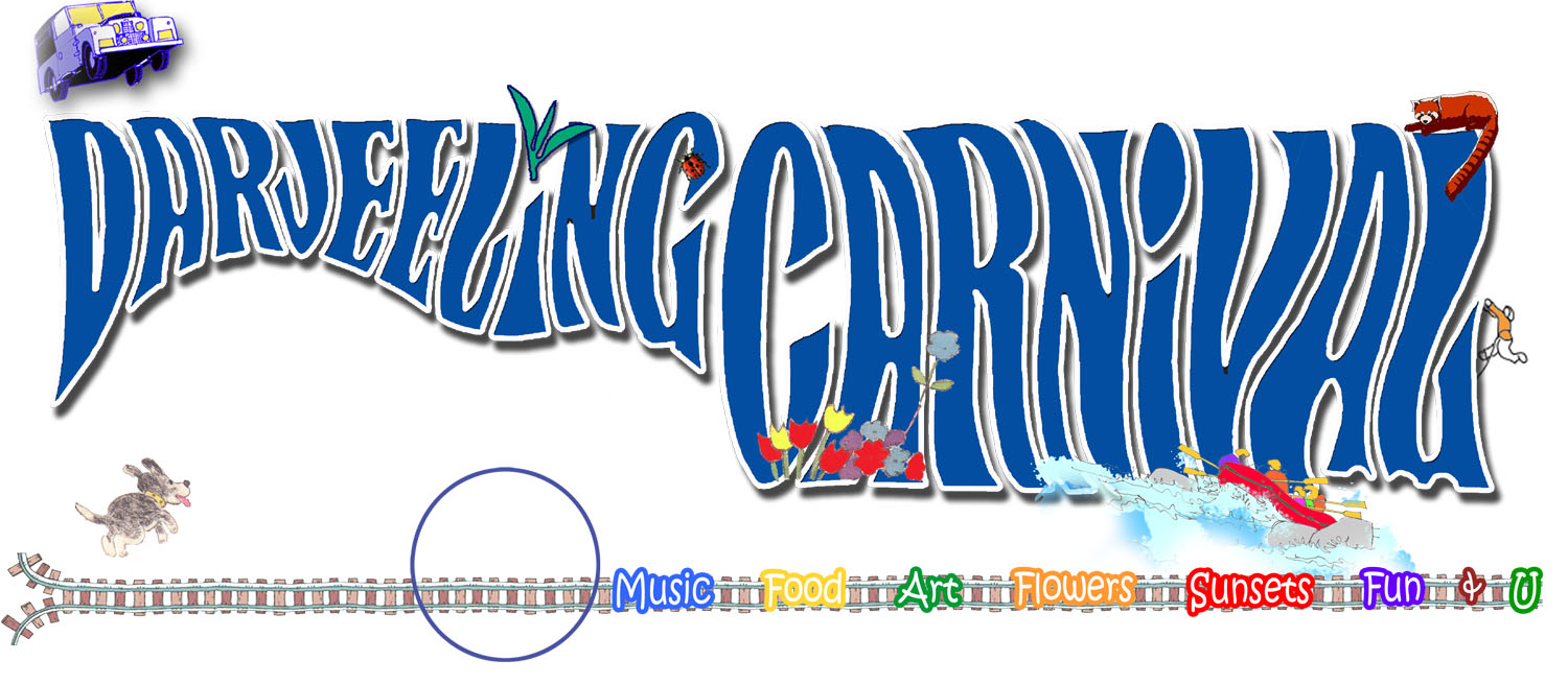 The official Darjeeling Carnival logo: Darjeeling Carnival is a ten-day carnival arranged in the town of Darjeeling, West Bengal, India. It is promoted by "The Darjeeling Initiative". It promotes culture, tourism, Darjeeling Tea and other aspects relating to Darjeeling.